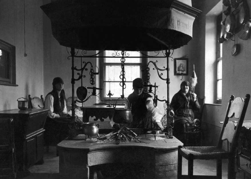 Cooking of Polenta on a Fogolar, a traditional fire oven (hearth) in Friuli / Italy / EU.